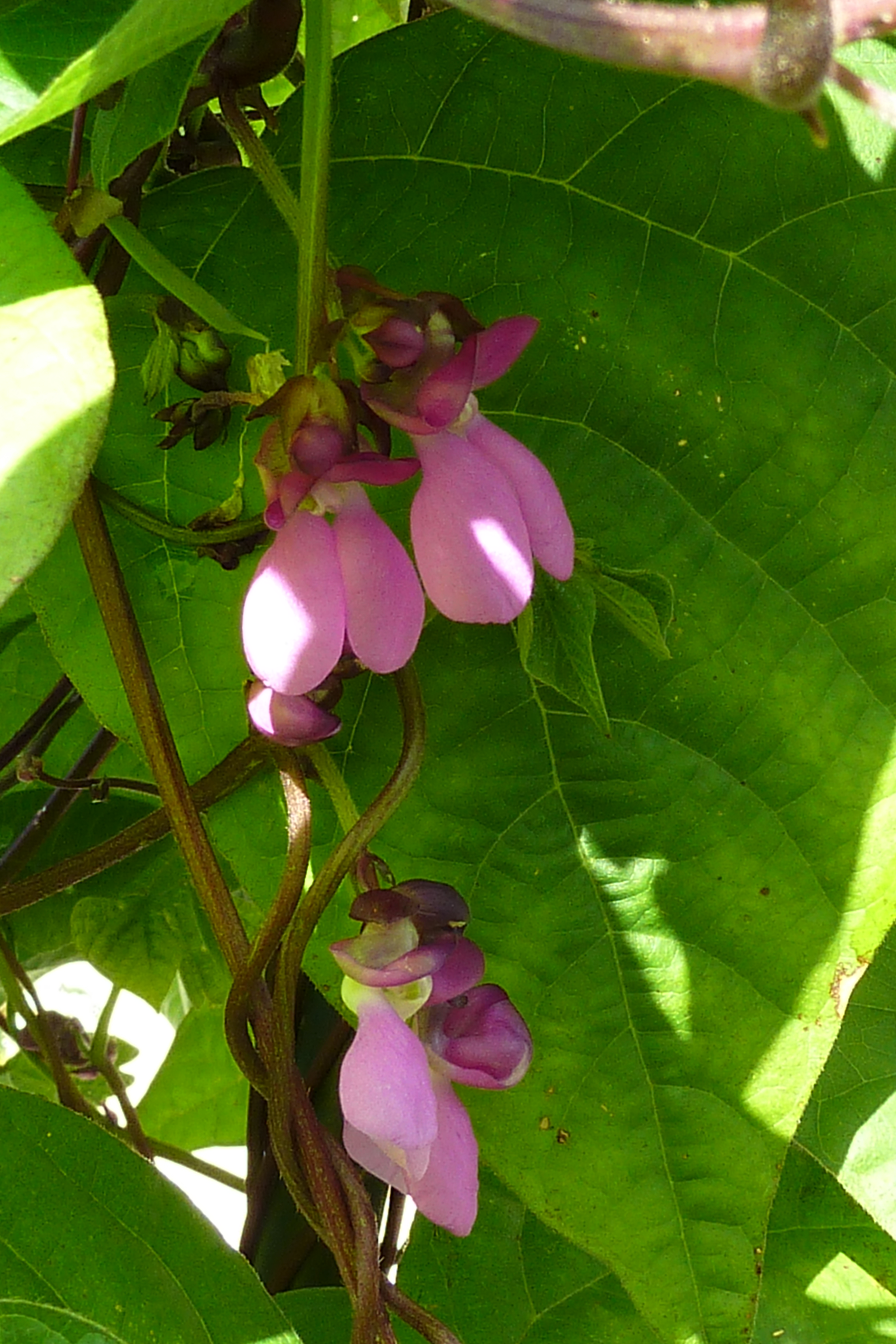 Blossoms of Common bean